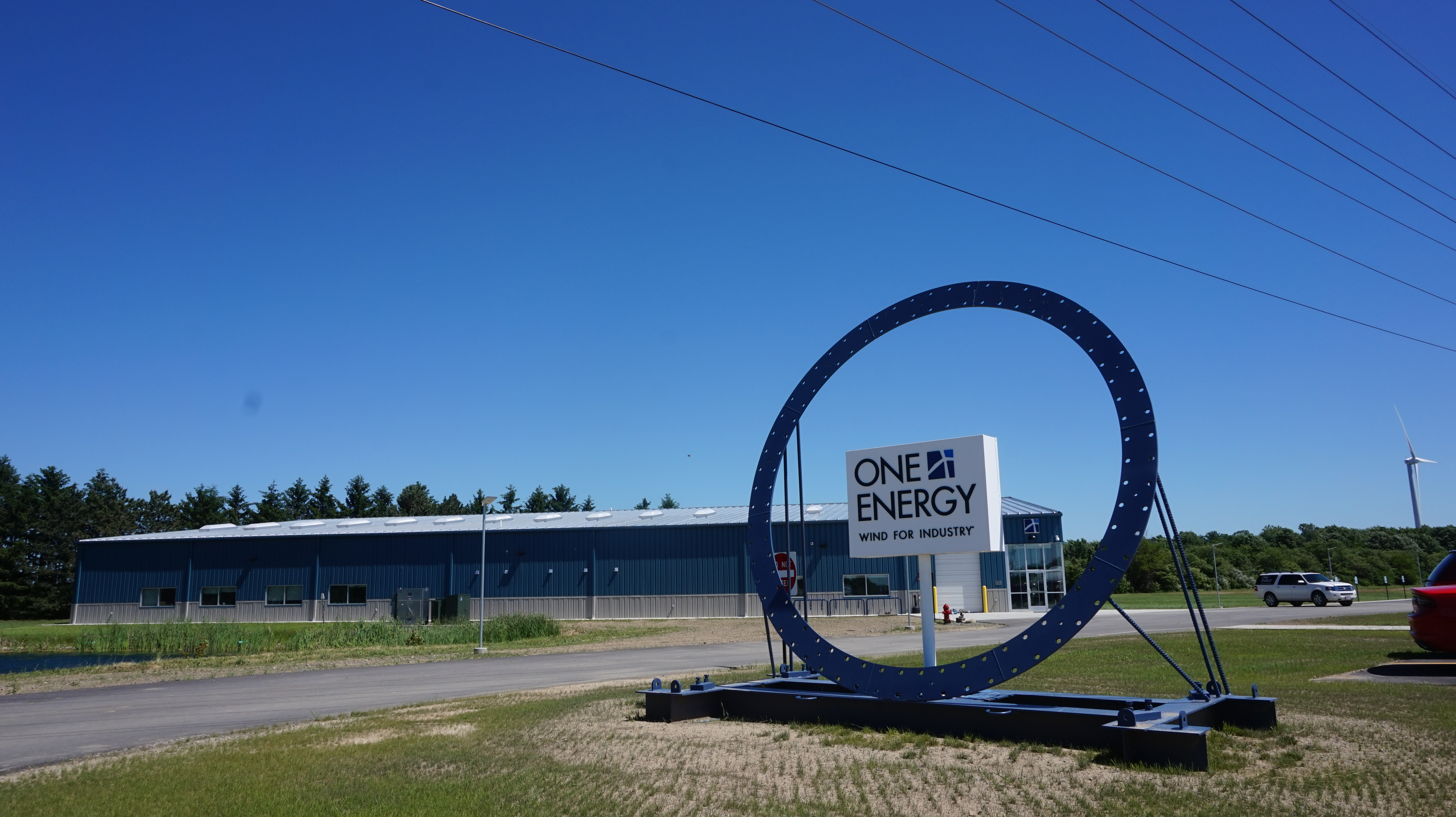 One Energy sign outside the company headquarters in Findlay, OH